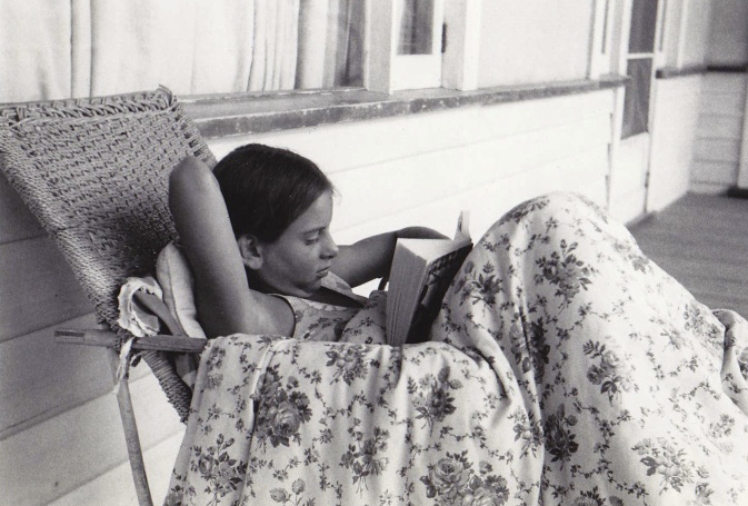 Jordie Albiston January 1970